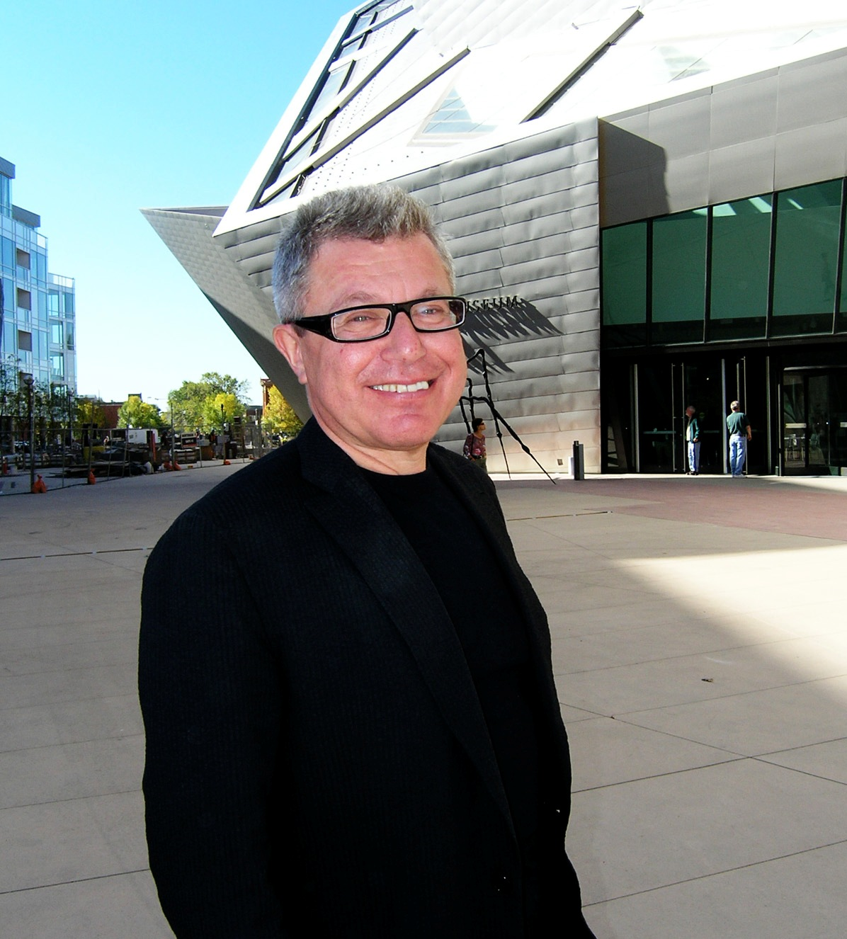 U.S. architect Daniel Libeskind in front of his extension to the Denver Art Museum, Denver, Colorado, USA.